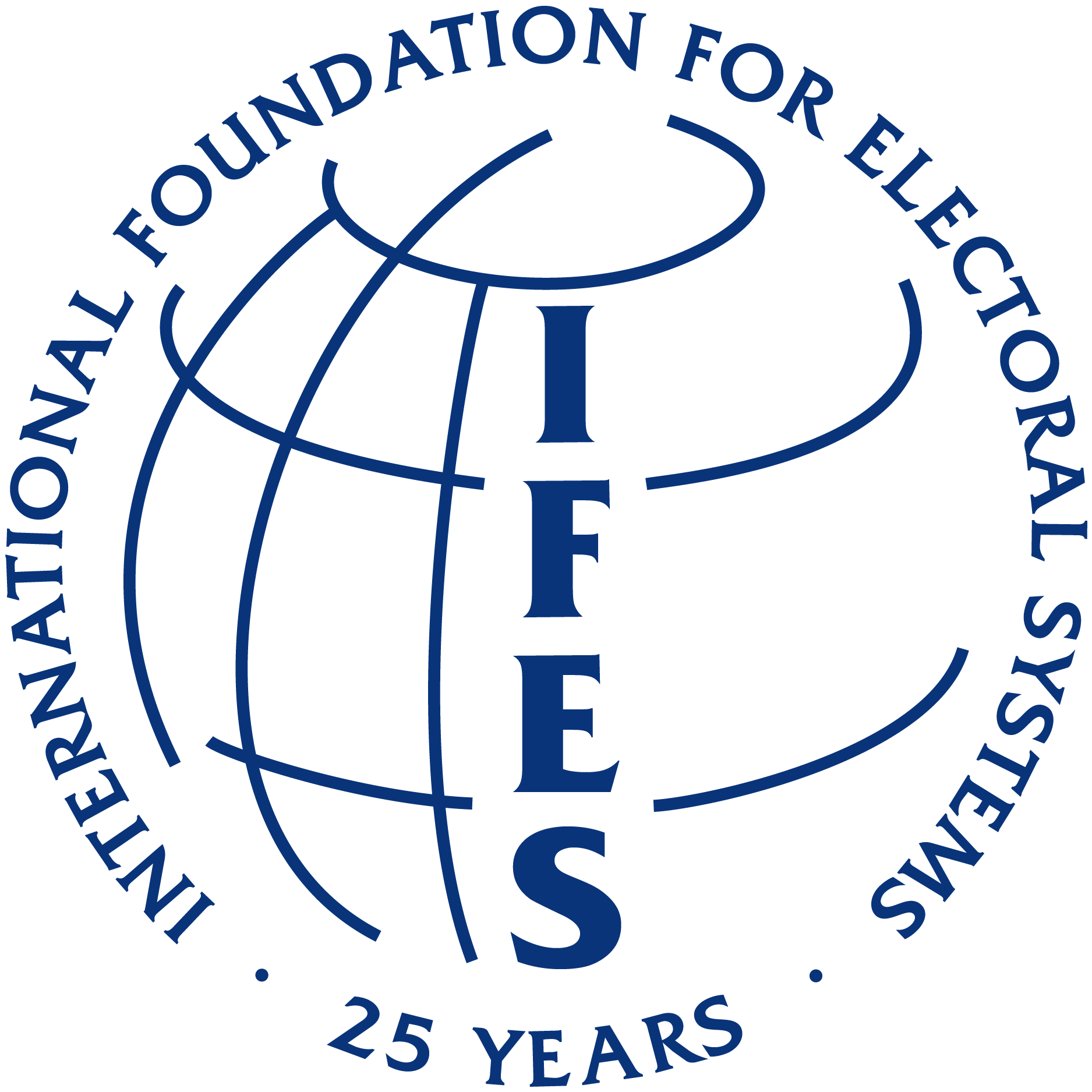 Міжнародна фундація виборчих систем (IFES)